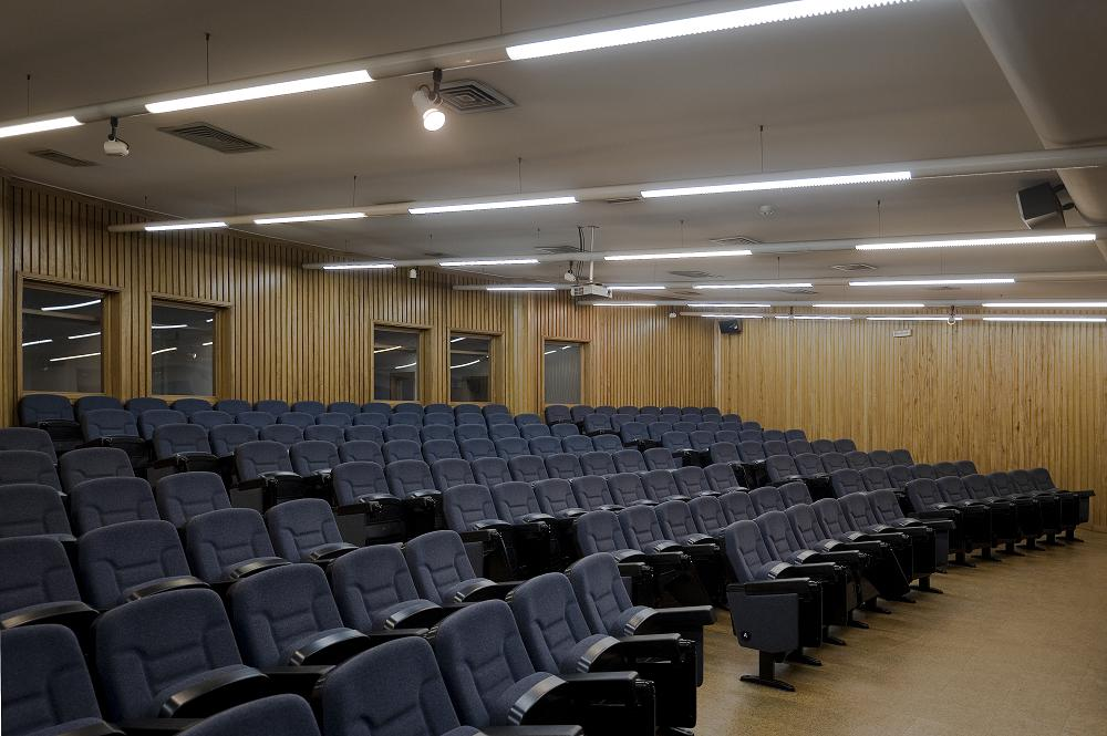 Auditorium 1 at Faculdade of Ciências Sociais and Humanas of Universidade Nova of Lisbon - FCSH of UNL